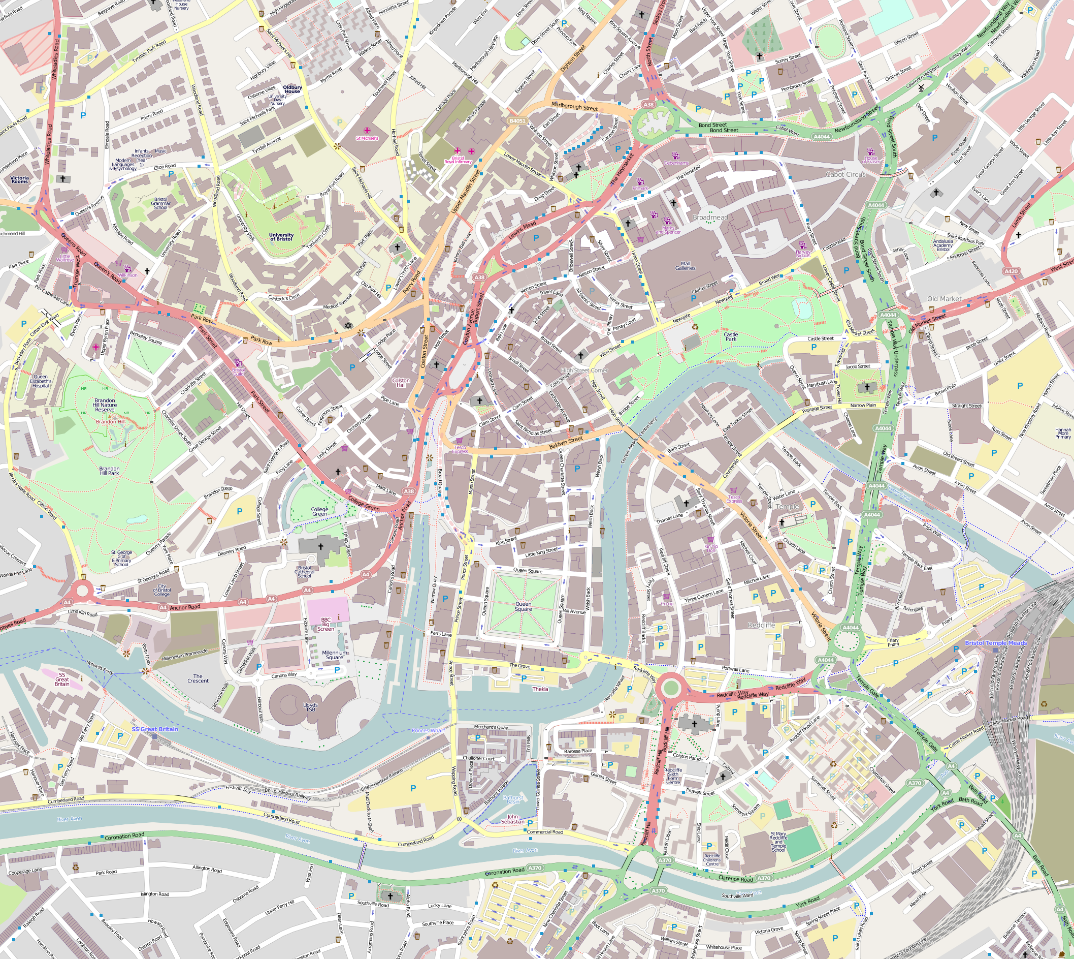 Map of Bristol Central Geographic limits: N: 51.46173° S: 51.44398° W: -2.61024° E: -2.57831°